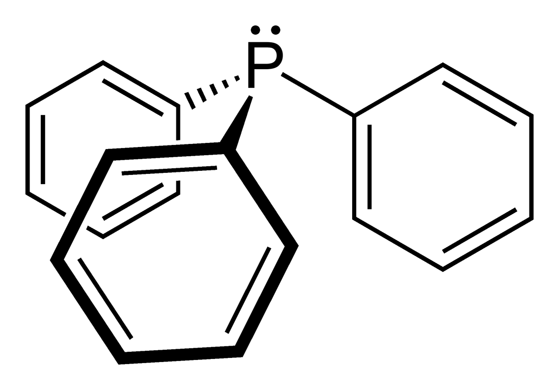 Skeletal formula of triphenylphosphine, PPh3, drawn in the style of User:Smokefoot. Structure drawn in ChemDraw Ultra 11.0.